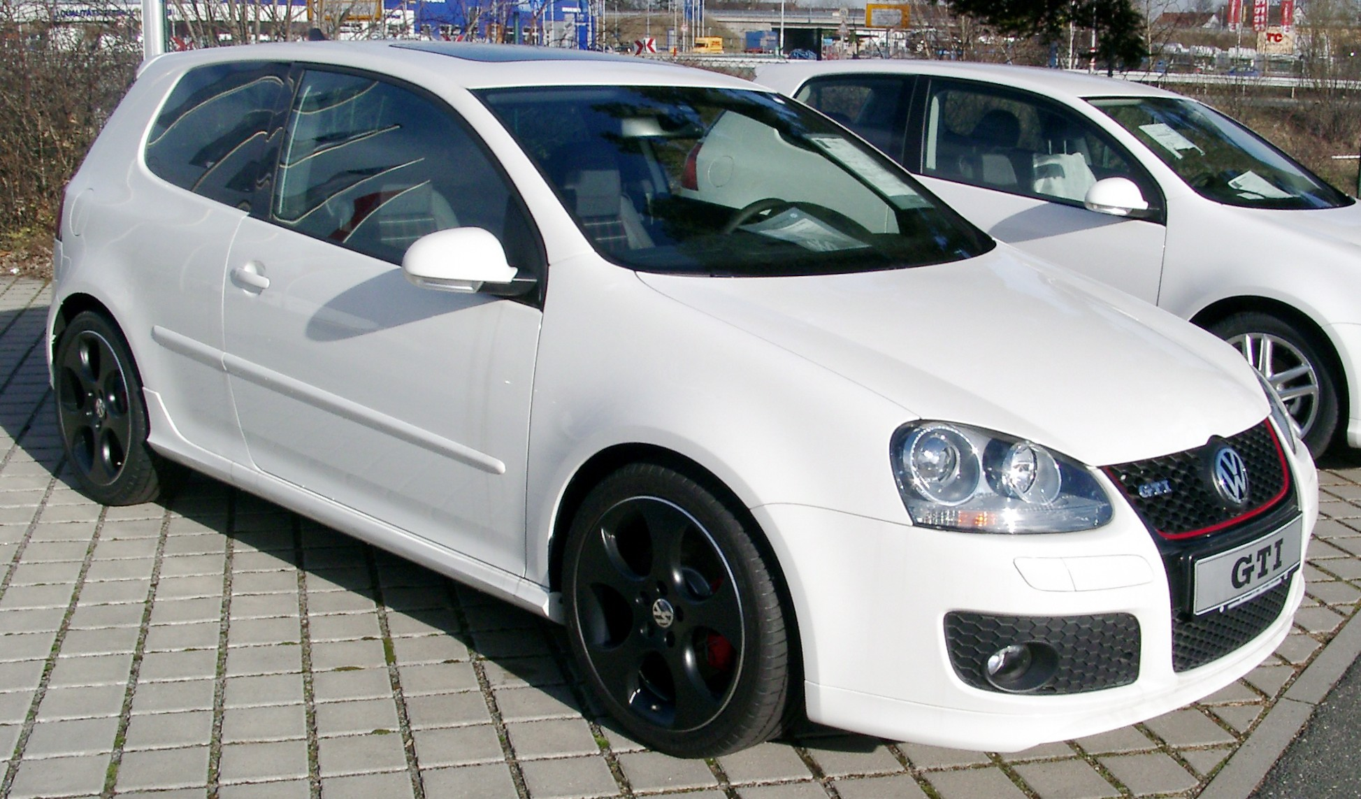 VW Golf V GTI Edition 30